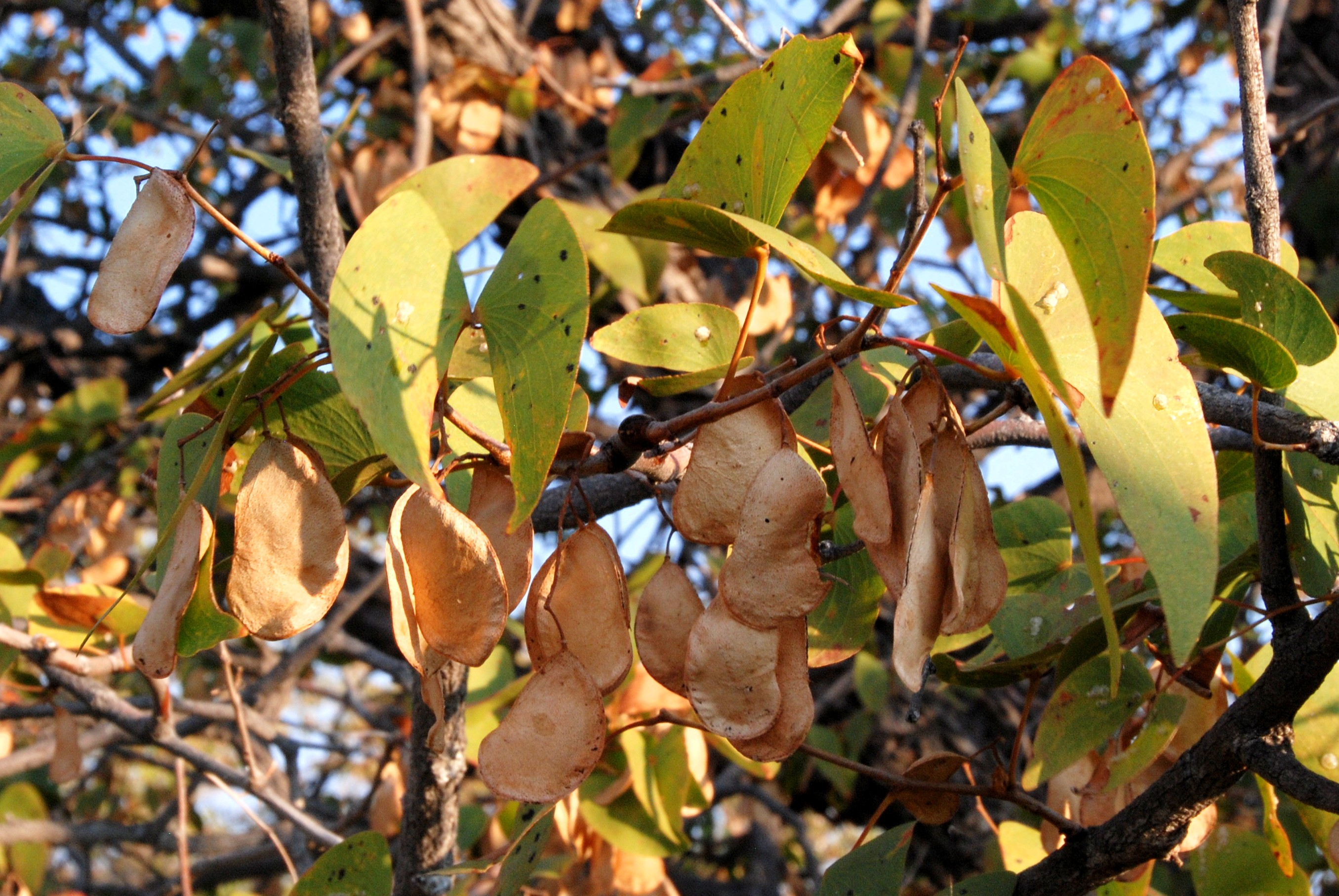 Seed and Leaves of Colophospermum mopane